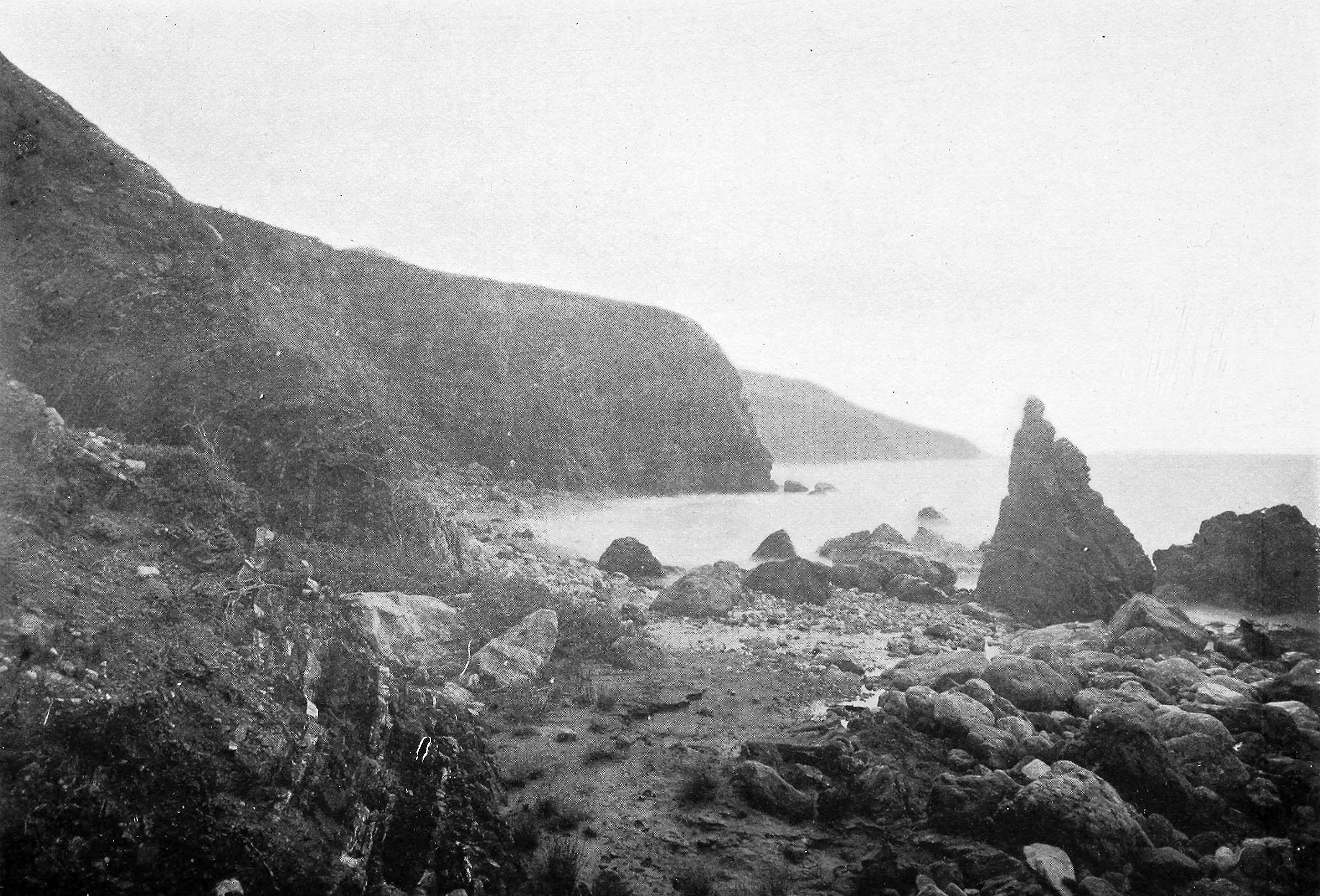 Coast at Slates Hot Springs, California. Title: Bulletin of the Geological Society of America Year: 1890 (1890s) Authors: Geological Society of America Subjects: Geology Publisher: (New York : The Society) Text Appearing Before Image: ' Text Appearing After Image: '